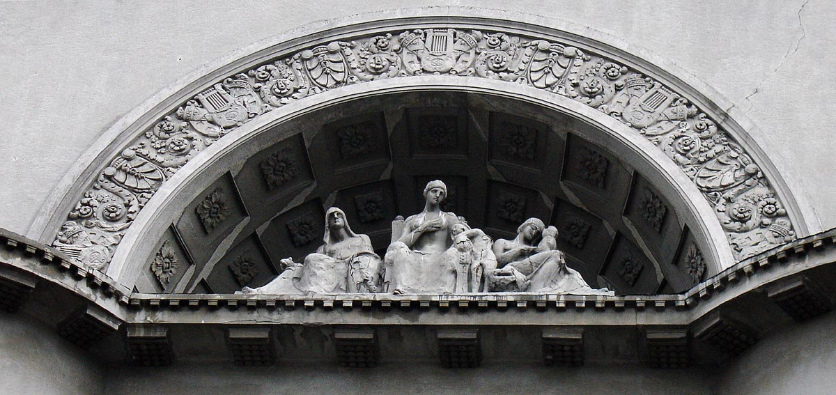 8, Maly Znamensky Lane, early 1910s: Neoclassical apartment building, sculpture in the attic.